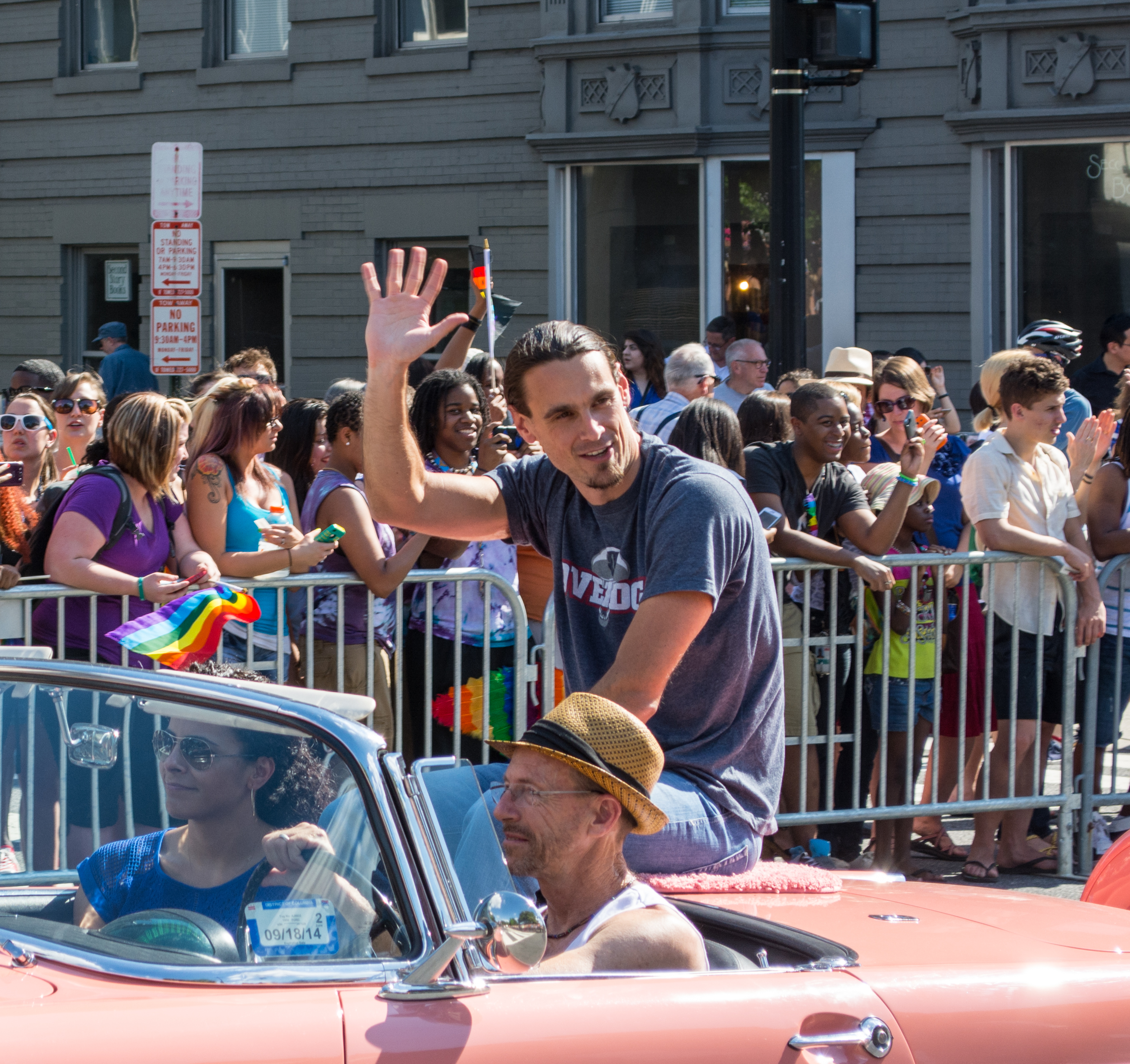 Retired National Football League player Chris Kluwe waves to the crowd during the Capital Pride gay pride parade on June 7, 2014, in Washington, D.C., in the United States. Kluwe, a heterosexual, was embroiled in controversy in 2013 for his support of same-sex marriage. Kluwe was named Grand Marshal of the parade.